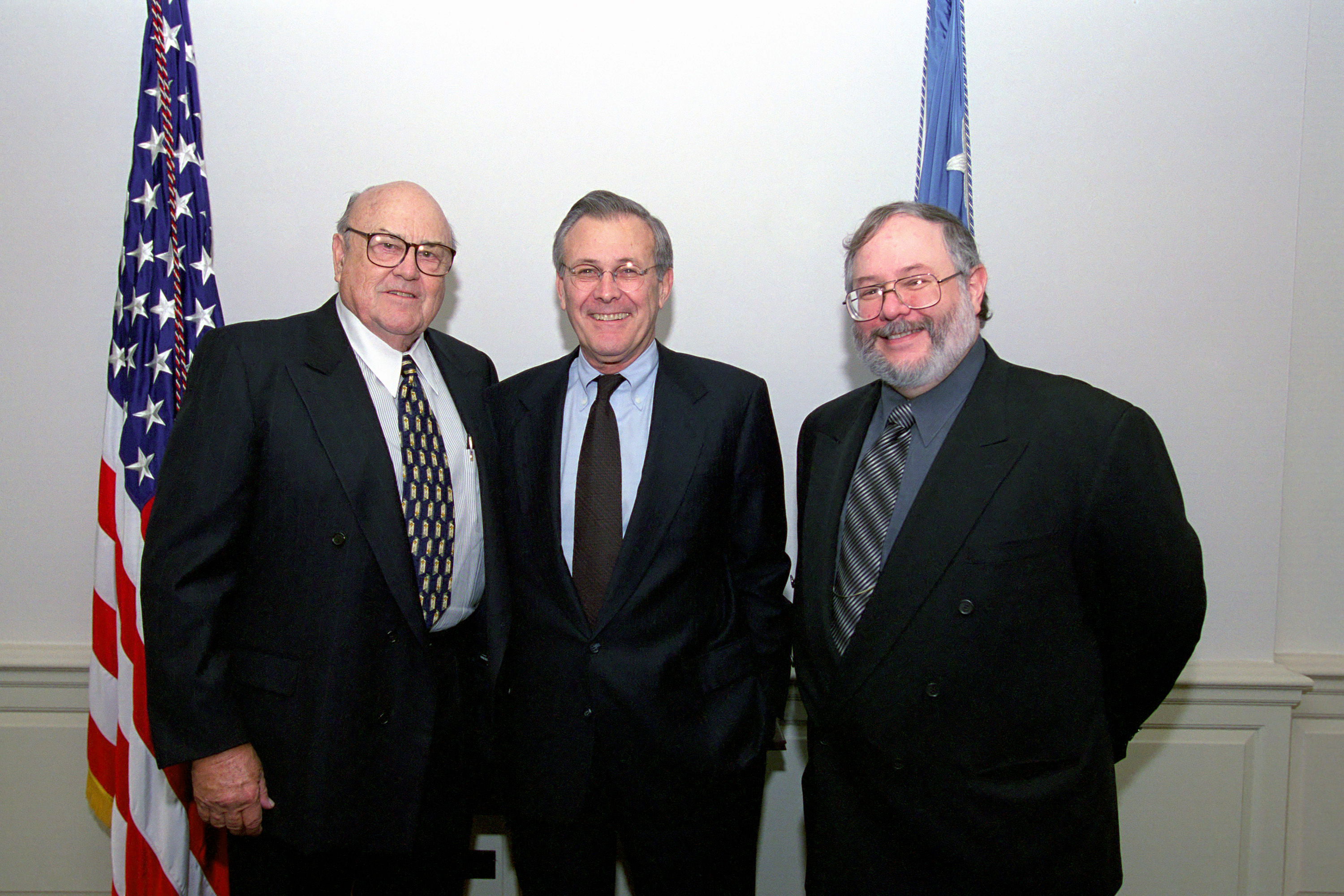 The honorable Donald H. Rumsfeld (center), U.S. Secretary of Defense, poses for a picture with the honorable Melvin Laird (left), former Secretary of Defense, and Dale Van Atta, the author of his autobiography, at the Pentagon, Room 3E880, Washington, D.C., Feb. 28, 2001. OSD Package No. A07D-00025